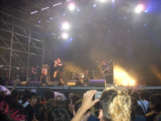 Punkreas in concert in Turin, Italy.